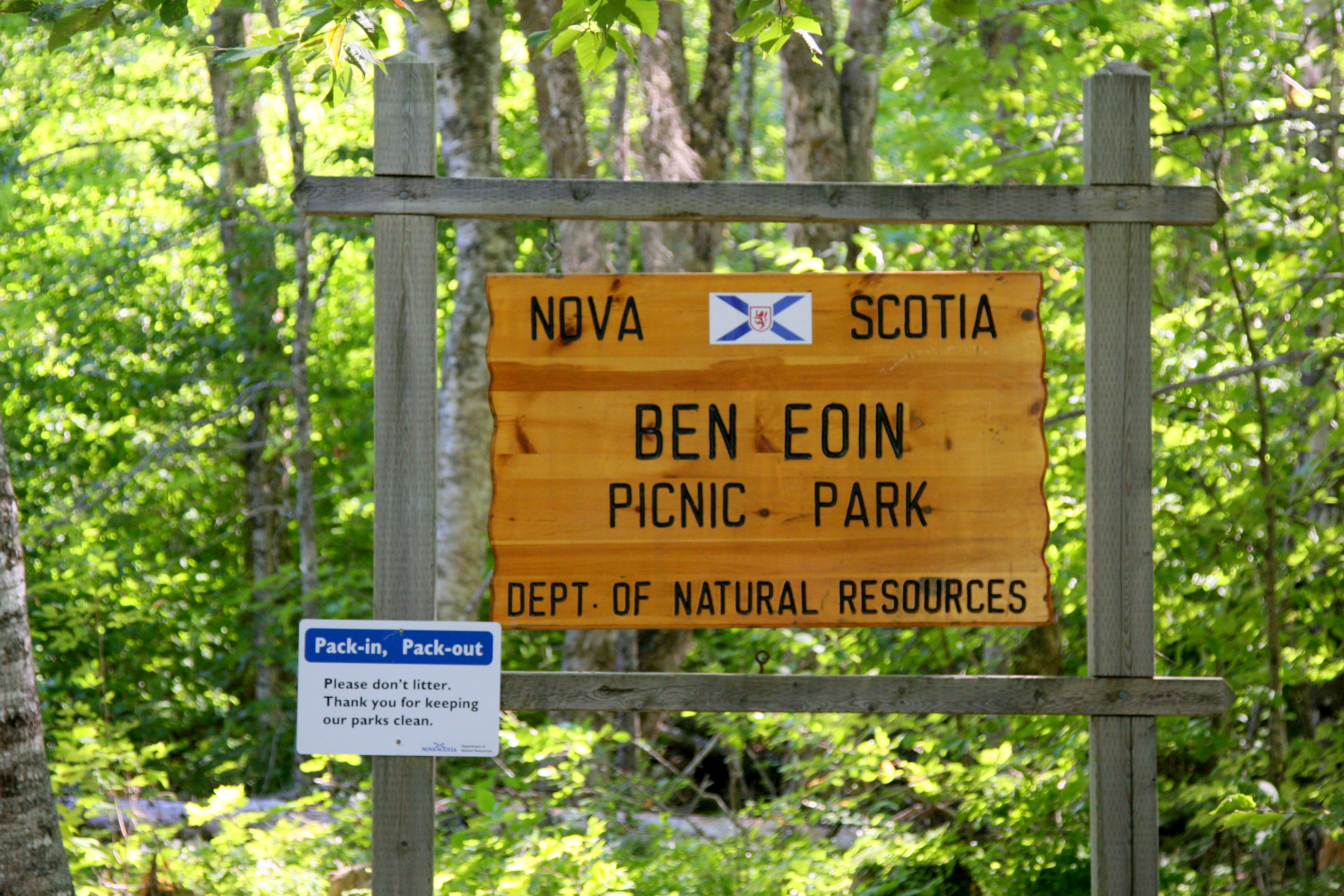 Ben Eoin Provincial Park is a small secluded park on an old farm against hardwood-covered hills in the community of Ben Eoin, Nova Scotia, on the south side of the East Bay of the Bras d'Or Lake, Cape Breton Island, Canada. This picnic and hiking park is managed by the provincial Department of Natural Resources and is situated on a heavily wooded 225 acres (91 ha) parcel of Crown land. A short distance into the park there are several large neatly mown clearings (former farm fields) with picnic tables under the trees at the edge of the small fields. Pit toilets and disposal areas for hot coals are available onsite.